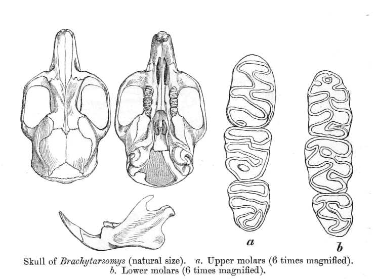 Skull of Brachytarsomys albicaudata